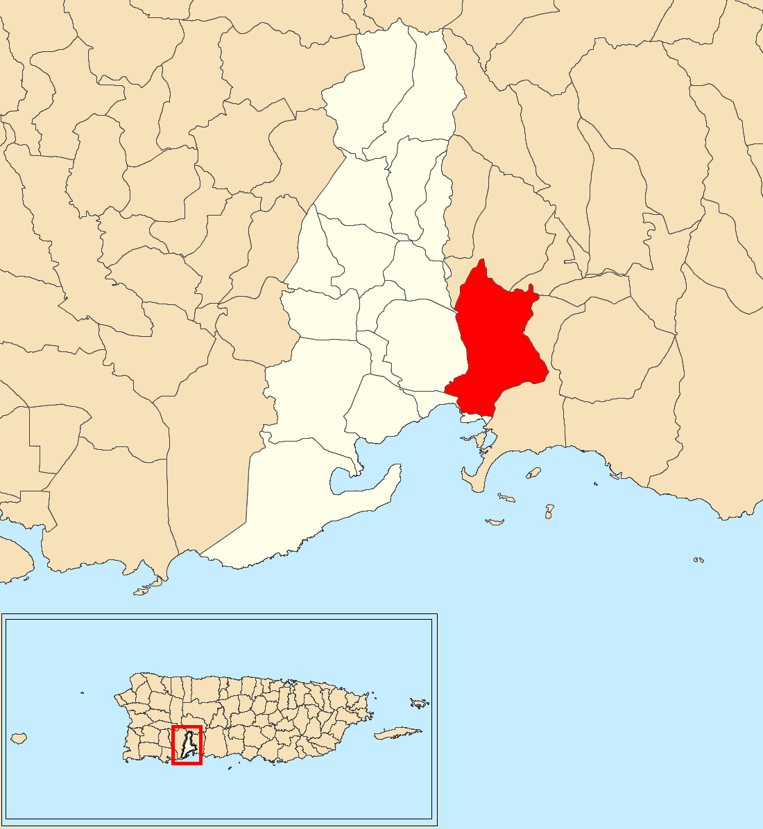 Cedro, Guayanilla, Puerto Rico locator map